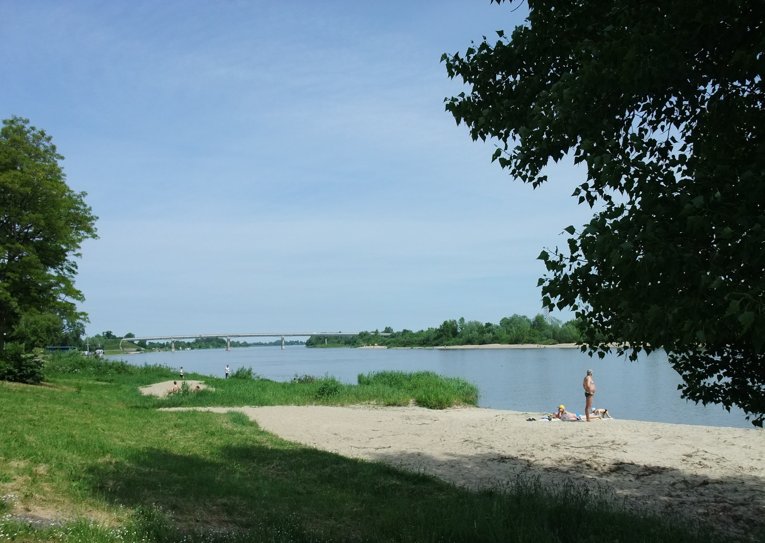 Neman delta near Rusne, Lithuania